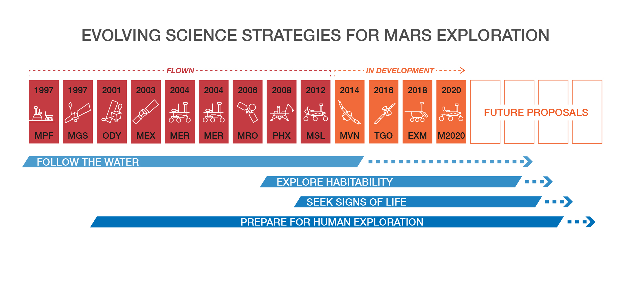 Connection to Mars Exploration Program Science Strategy: Seek Signs of Life The Mars 2020 mission would explore a site likely to have been habitable, seek signs of past life, fill a returnable cache with the most compelling samples, and demonstrate technology needed for the future human and robotic exploration of Mars. Exploration Timeline NASA's Mars Exploration Program has a long-term, systematic exploration plan for the Red Planet. Mars missions build on each other, with discoveries and innovations made by prior missions guiding what comes next. Mars missions are guided by evolving, discovery-driven science strategies that provide continuity in Mars science exploration themes. The first framing theme was "Follow the Water," as water is essential to life as we know it. Finding past and present signs of water help define environments with conditions for past or present microbial life. With past orbiters, landers, and rovers finding evidence of water, the theme "Explore Habitability" emerged to look for additional conditions necessary to life, including chemical elements and compounds necessary for life as we know it. Mars Science Laboratory's Curiosity rover marks a transition to the current science theme: "Seek Signs of Life." While Curiosity is seeking evidence of habitable conditions (both past water and the chemistry needed for life), under the science definition team's vision, Mars 2020 would potentially seek signs of past life itself in the geologic record. It would also potentially include experiments that would prepare for human exploration